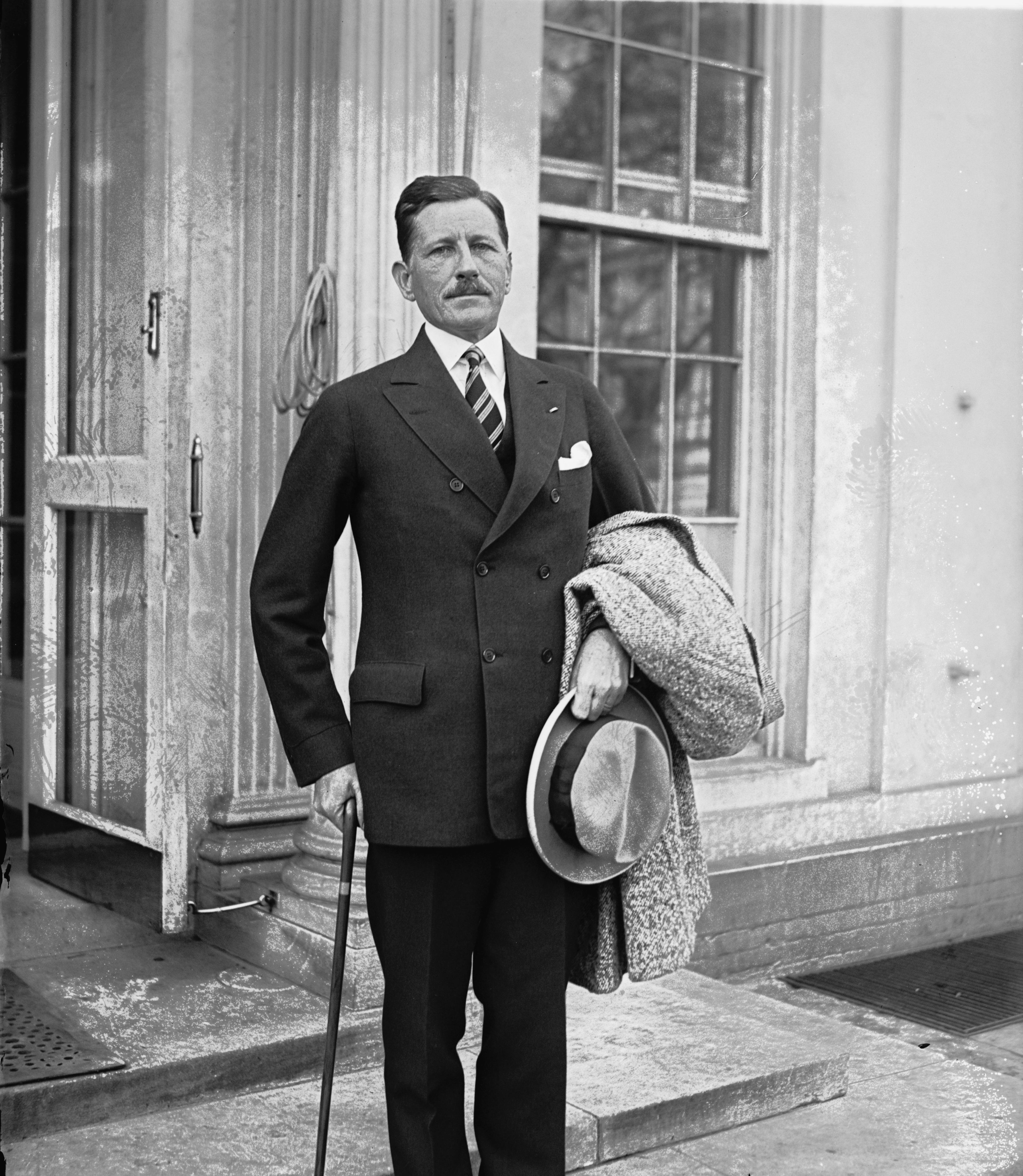 Patrick Jay Hurley